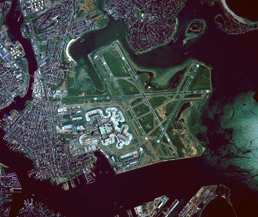 Boston's Logan Airport (KBOS) aerial view. Runway 14-32 was built after this photograph was taken.